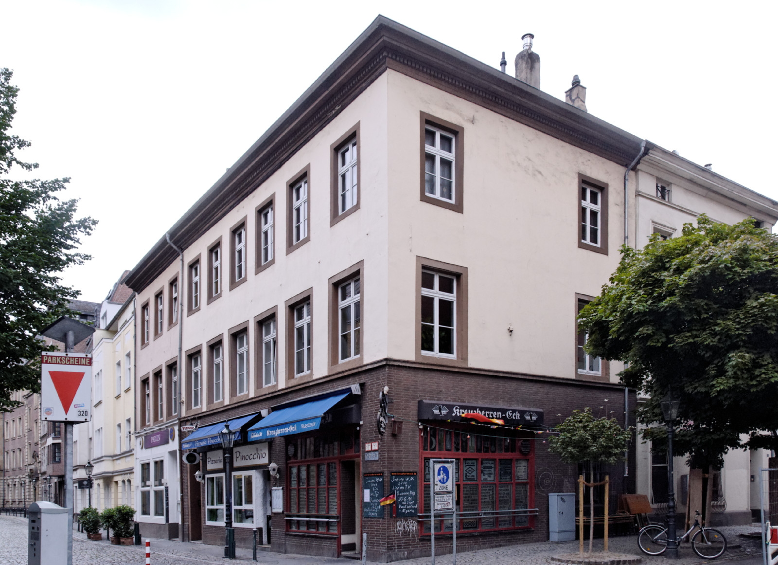 House Altestadt 14 in Düsseldorf-Altstadt, Germany